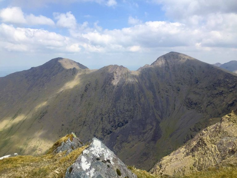 Photograph from the summit of Caher looking at Beekeragh (left) and Carrauntoohil (right), with the Beenkeragh Ridge and The Bones between them.